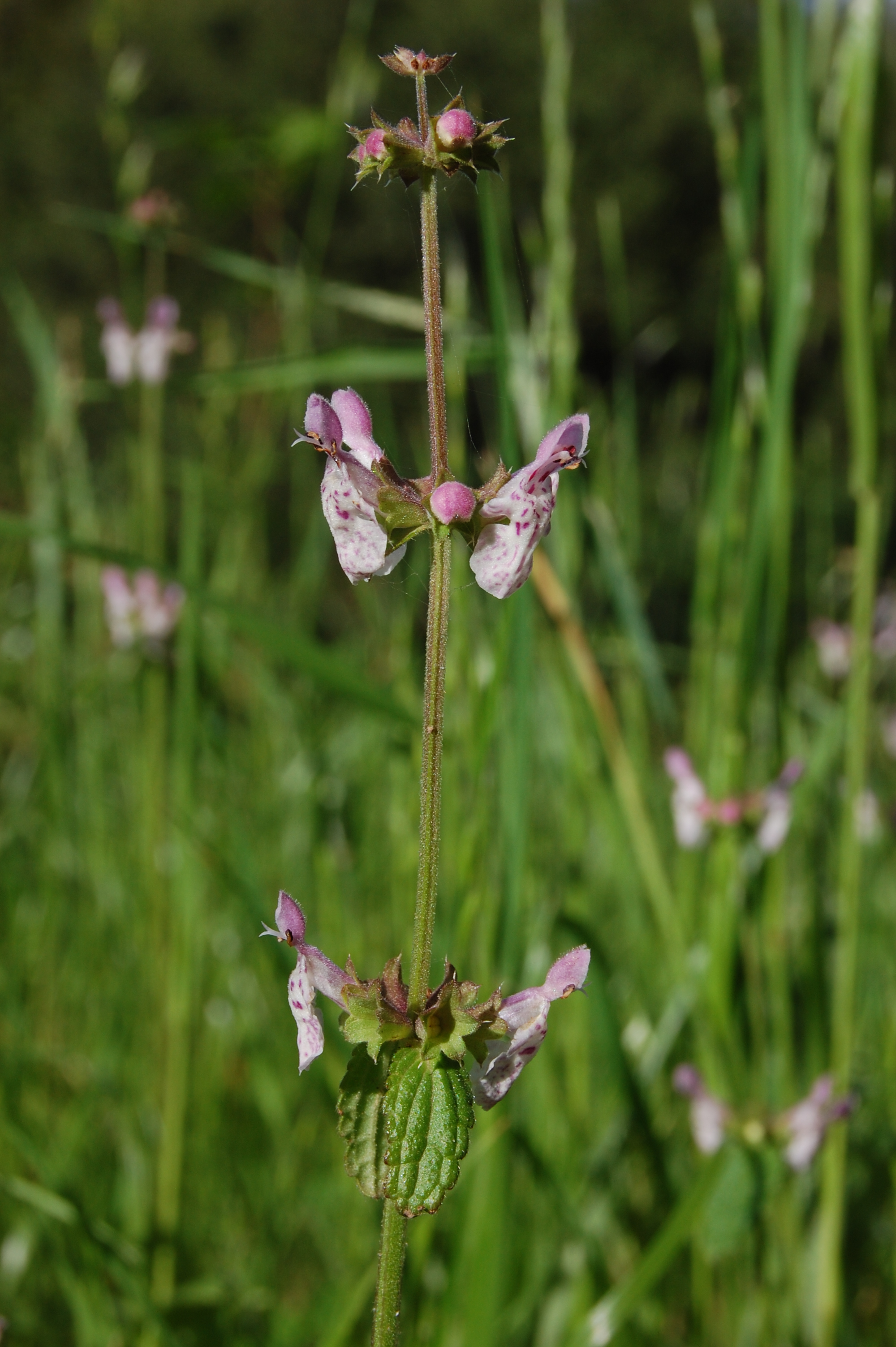 Rigid Woodmint, Rigid Hedge Nettle. Stachys ajugoides var. rigida. Made in Almaden Quicksilver County Park, San Jose, California, USA. Identified with help of